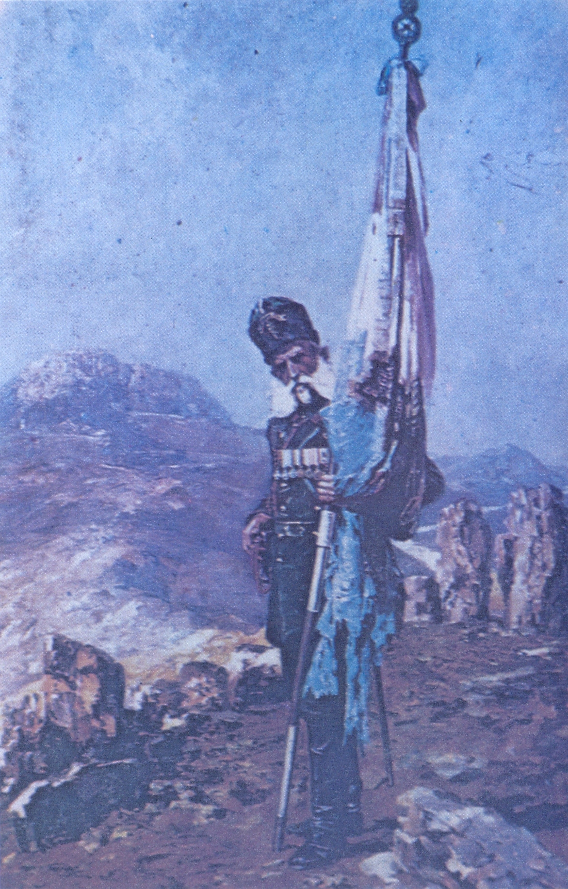 Jaroslav Věšín, "Samara Flag"